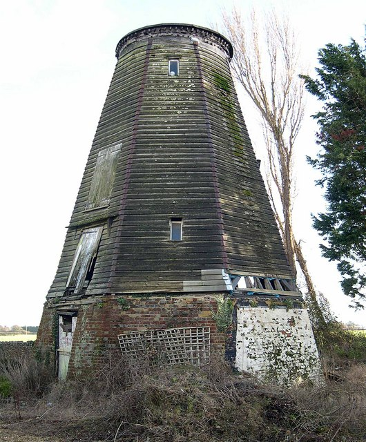 Photograph of Somerley Mill, Earnley, Sussex